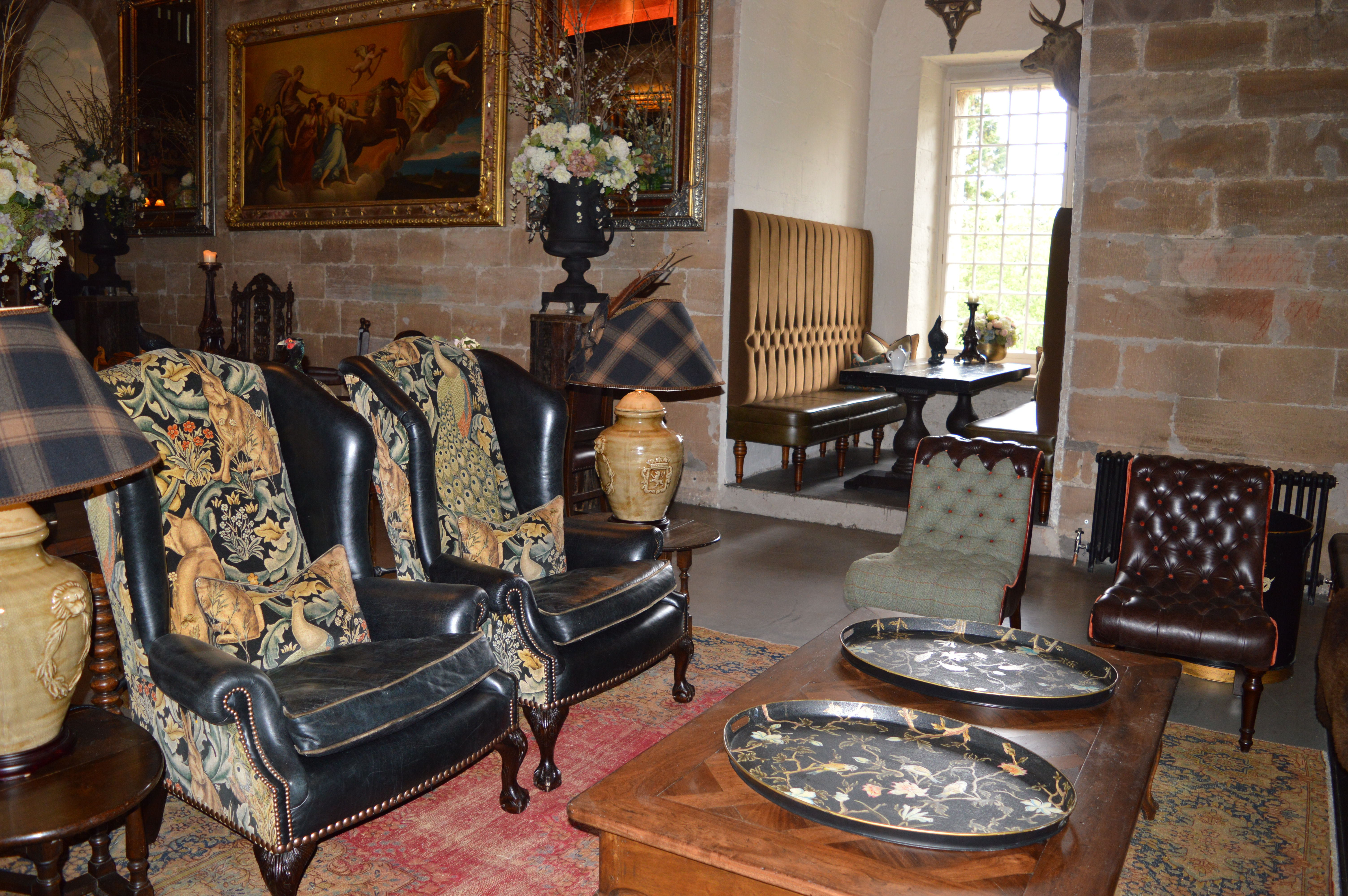 Borthwick Castle, Interior Wikidata has entry Q17567412 with data related to this item.